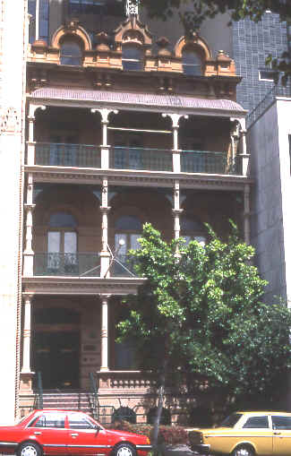 History House, Macquarie Street, Sydney, photo by Sardaka 12:12, 10 August 2007 (UTC)